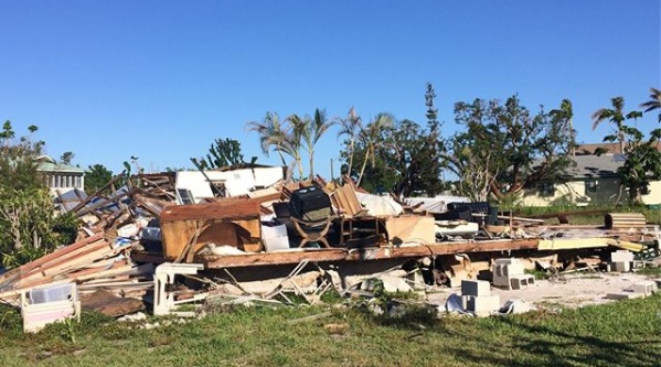 A mobile home destroyed by Hurricane Irma in Goodland, Florida